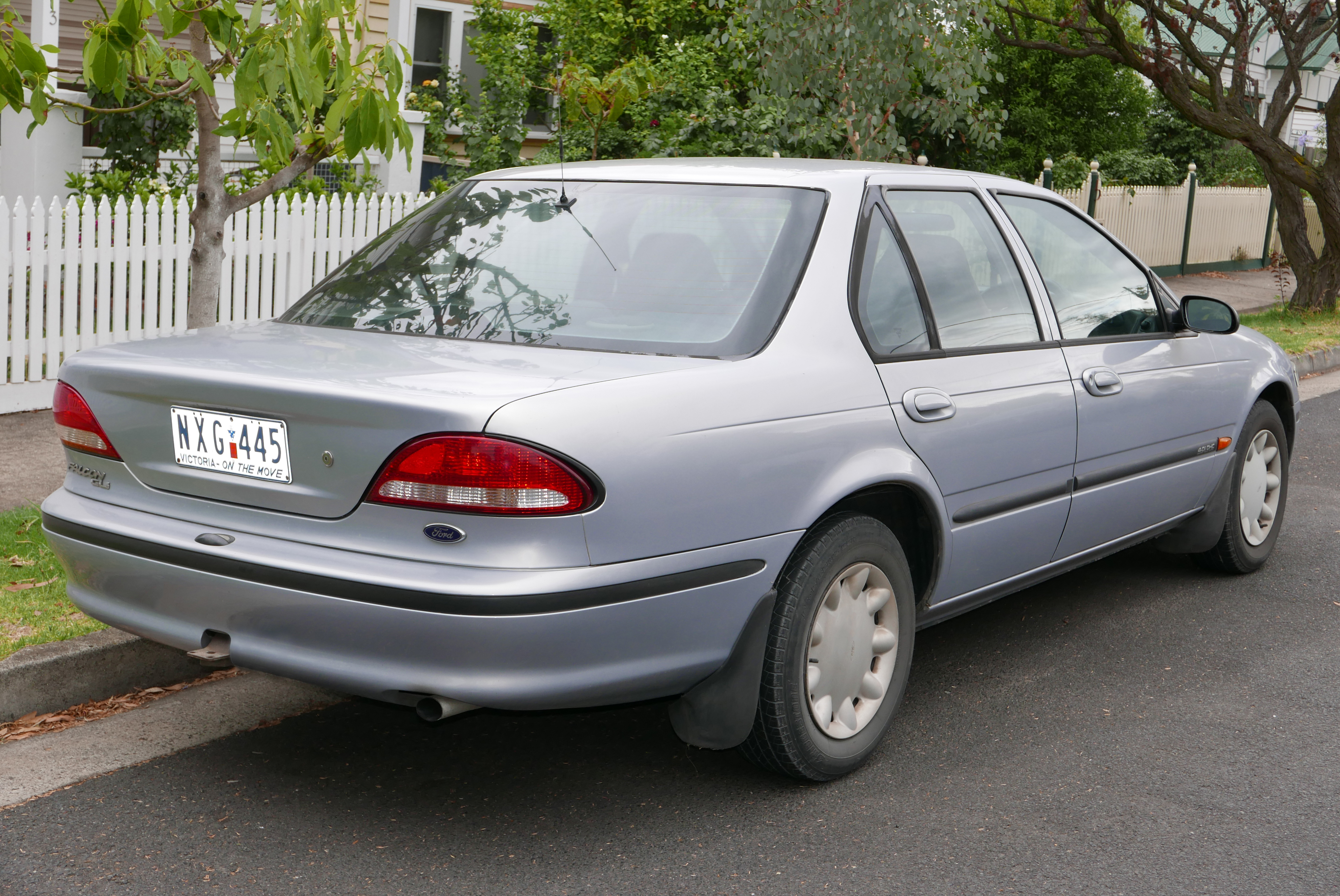 1996 Ford Falcon (EF II) GLi sedan. Photographed in Coburg, Victoria, Australia. Vehicle registration enquiry results Jurisdiction Victoria Registration NXG445 Chassis code 6FPAAAJGSWTD60400 Engine code JGSWTD60400 Compliance date 1996-07 Year of manufacture 1996